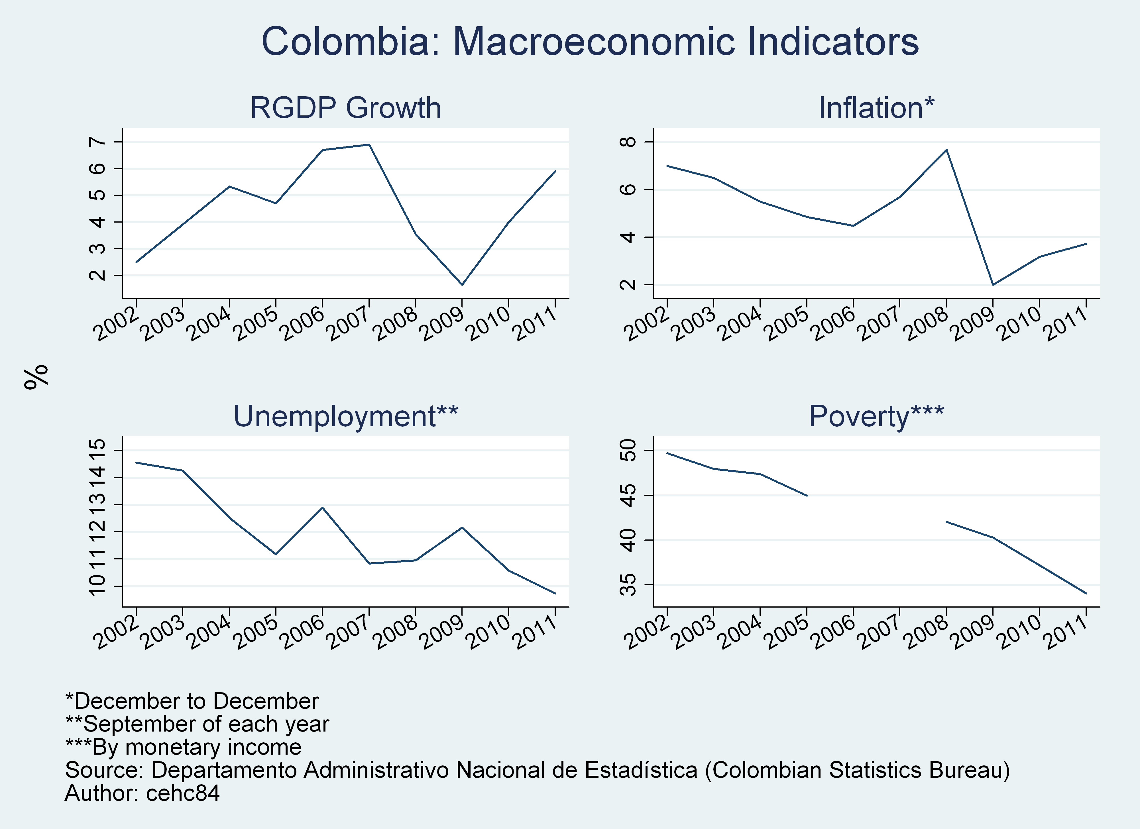 Colombia: Selected Macroeconomic Indicators. RGDP growth, Inflation, Unemployment rate, Poverty rate. 2002-2011.